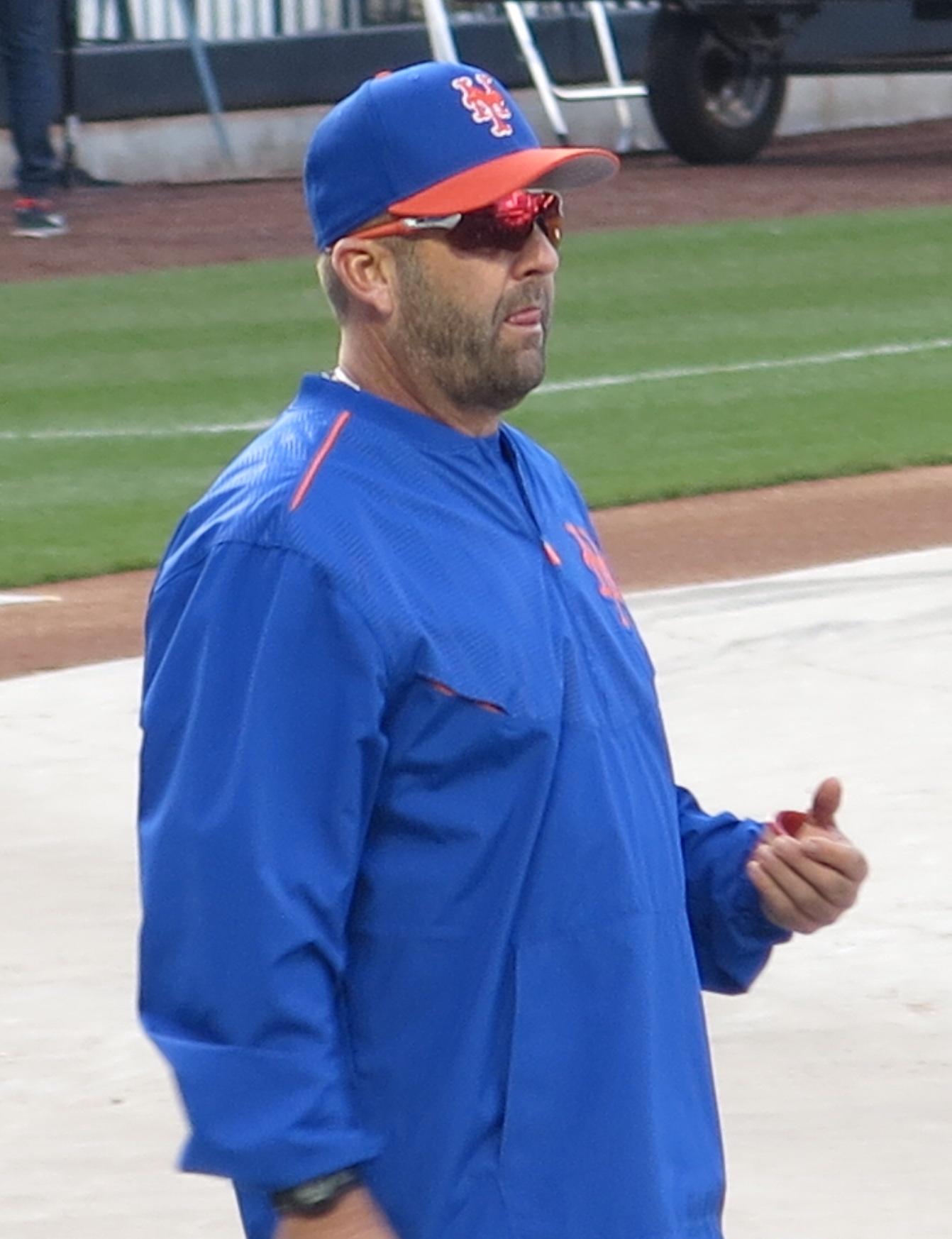 Kevin Long.